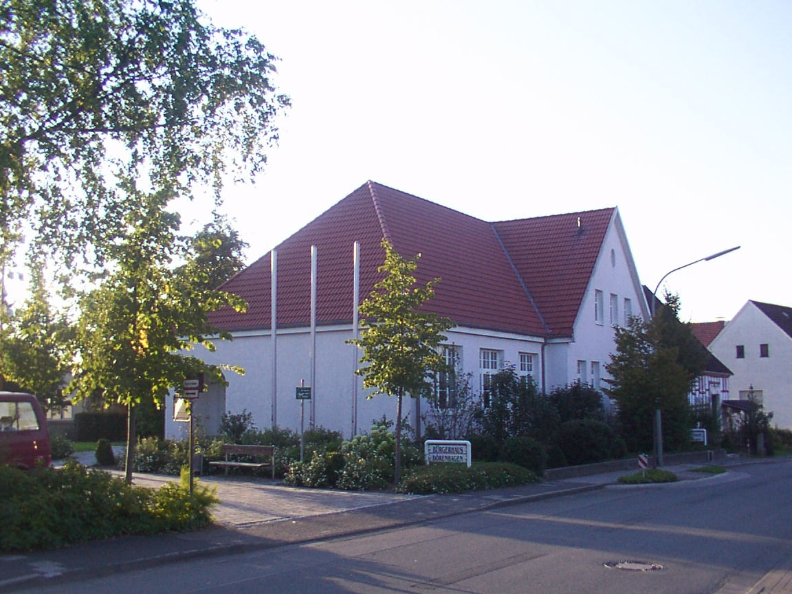 Borchen: "Bürgerhaus" (house for public events) in Dörenhagen